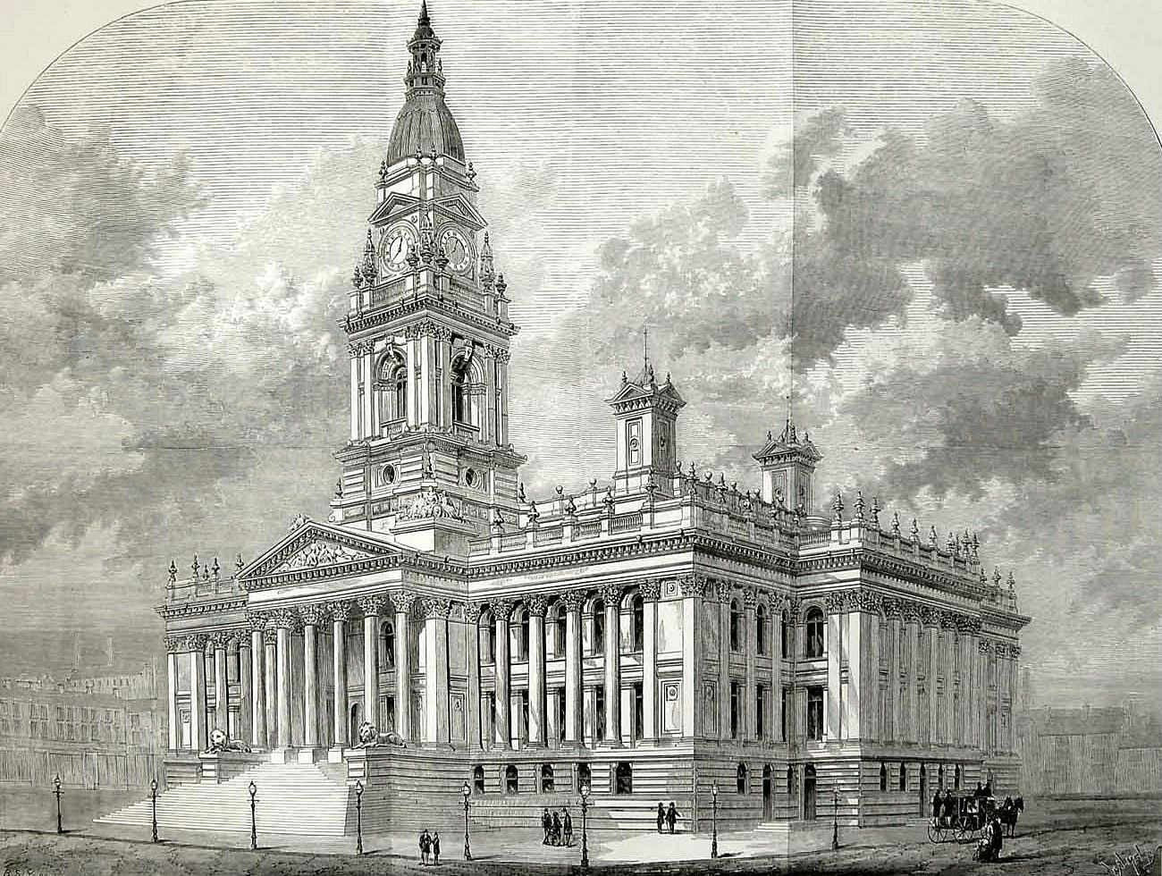 Engraving of Bolton Town Hall, dated 7 June 1873, from the design of William Hill and George Woodhouse, architects.